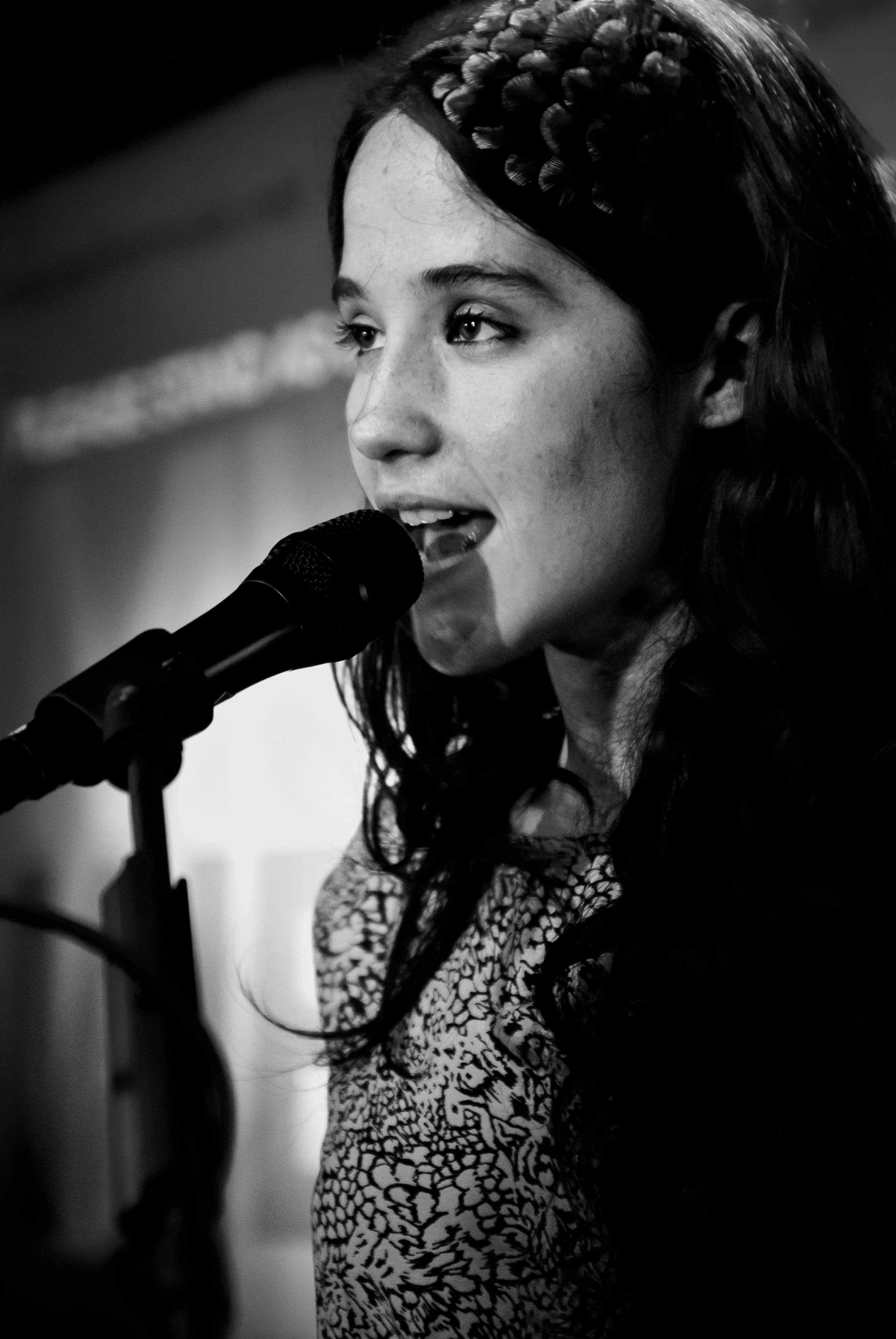 Singer Ximena Sariñana